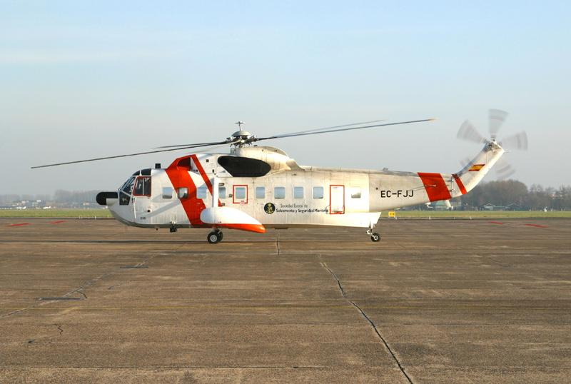 Helicoptero de salvamento